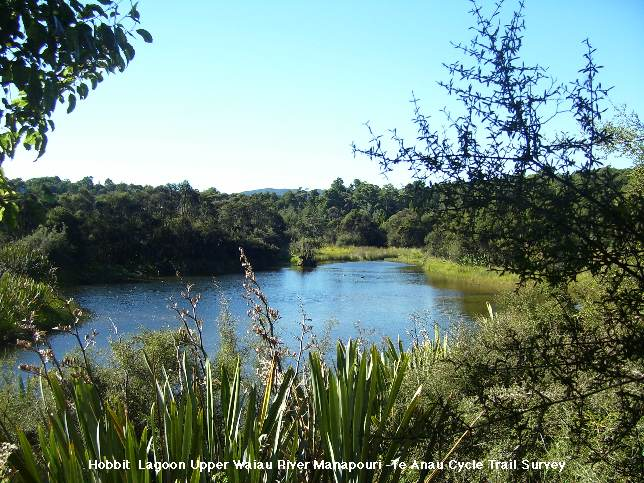 View Point at the South End of Anduin Reach Upper Waiau River Southland NZ